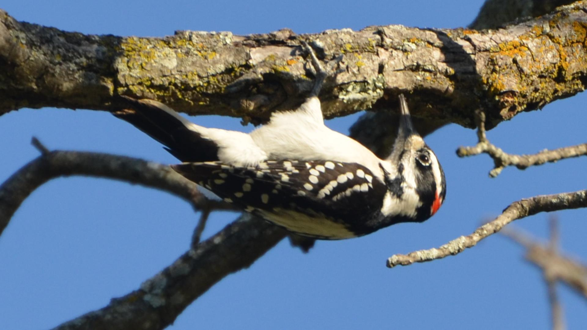 Shaw Nature Reserve in Gray Summit on 10/8/12